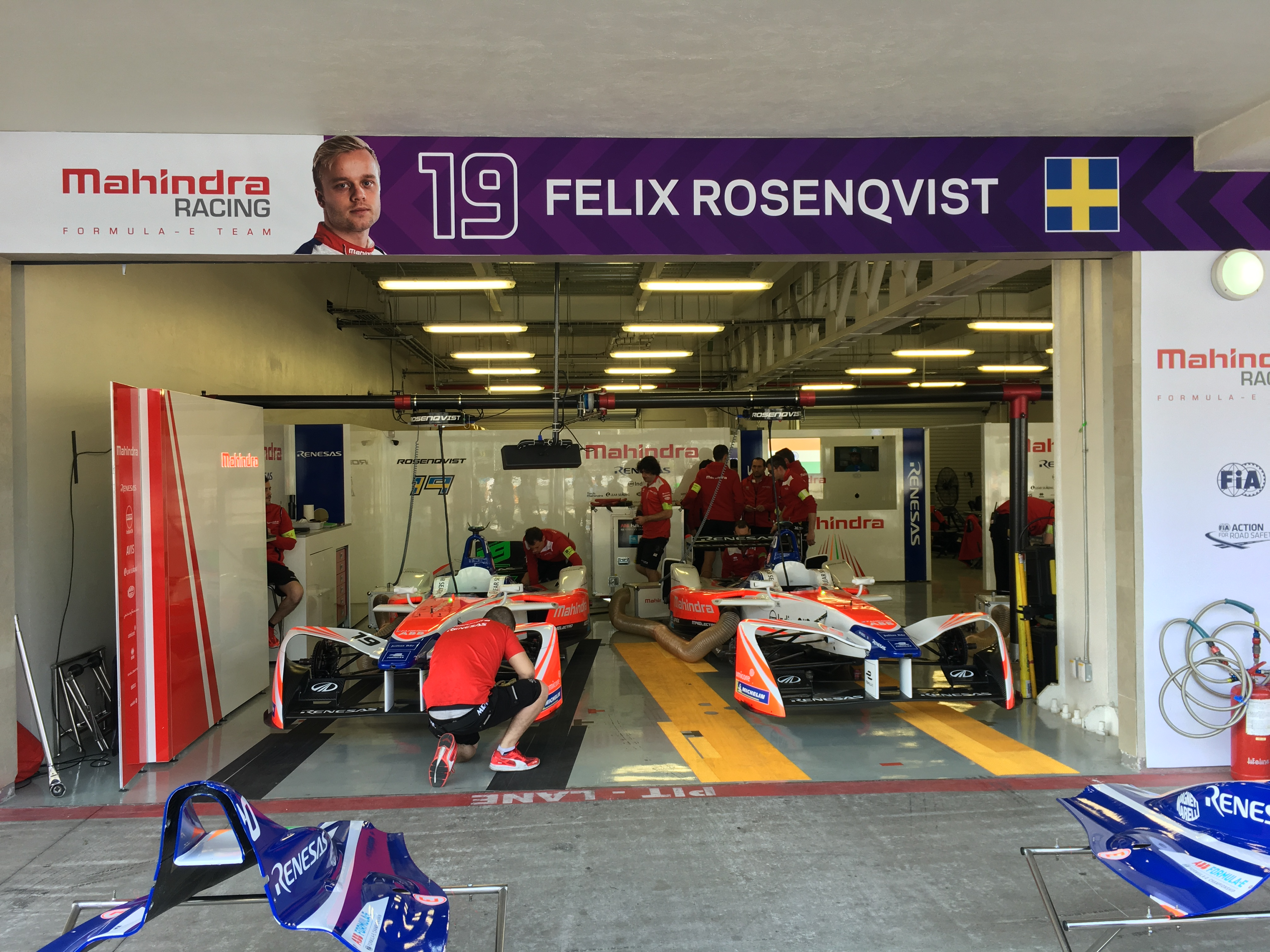 Felix Rosenqvist´s garagein the Formula E Mexico E-Prix 2018